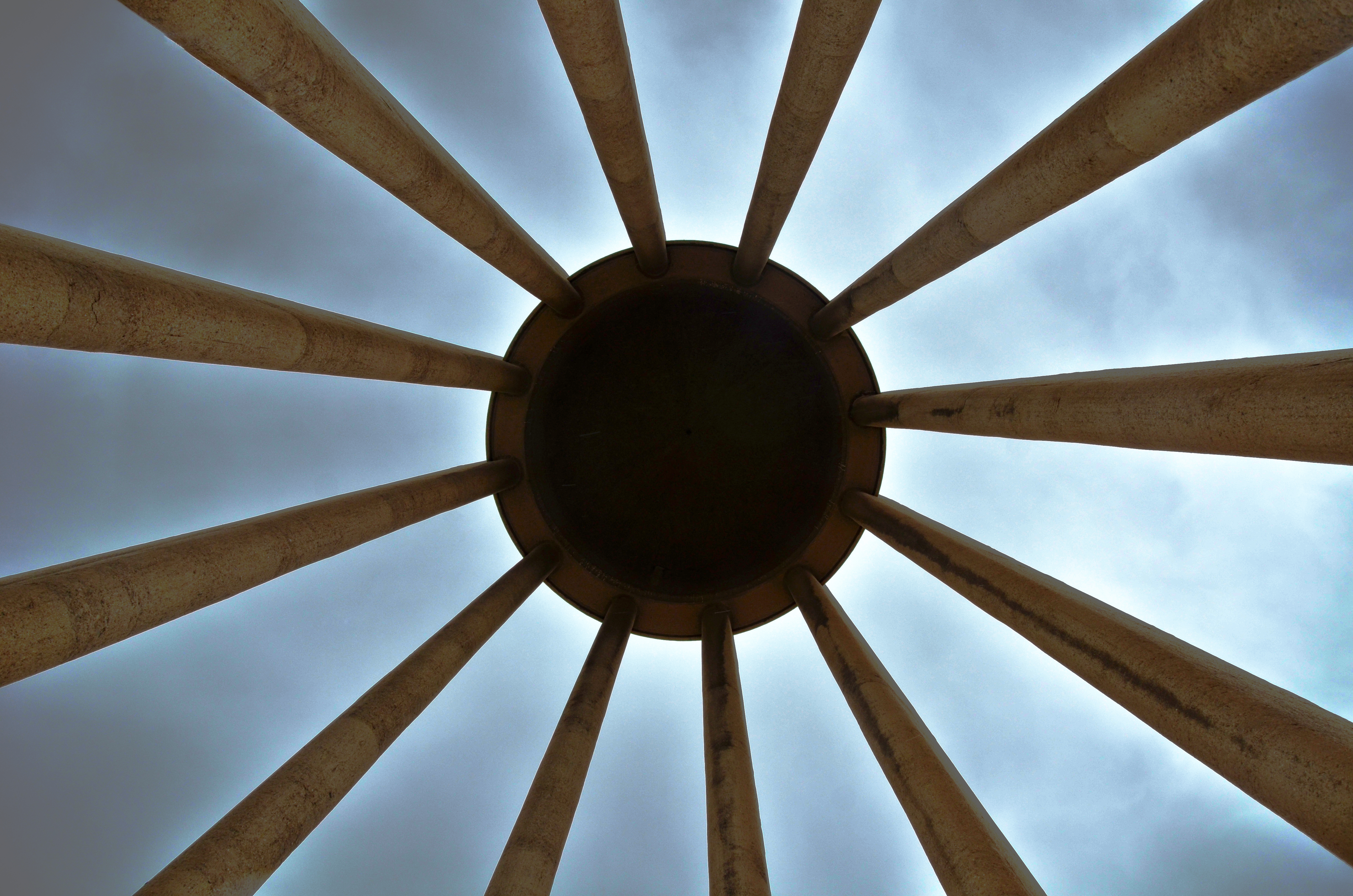 Iran - Hamedan - The Tomb of Avicenna